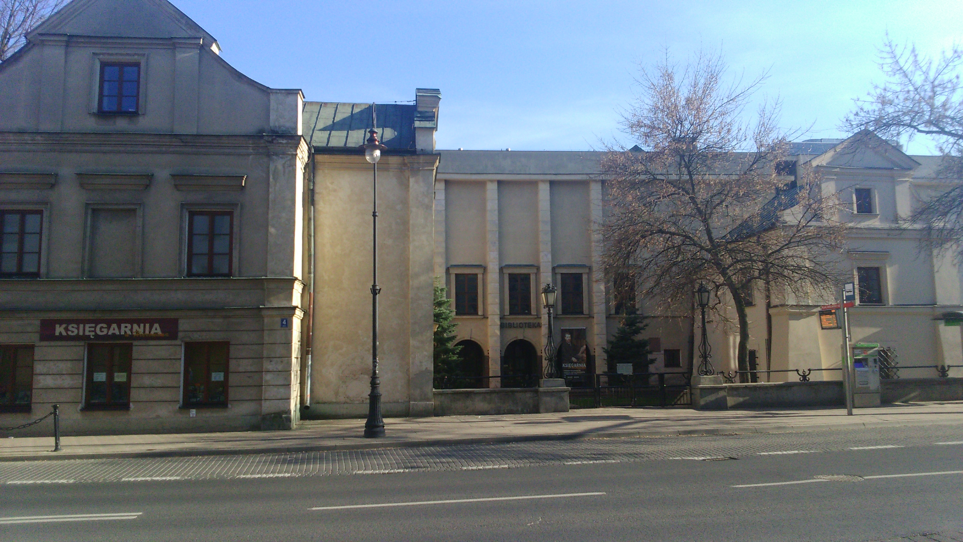 Lublin Kwiecień 2017